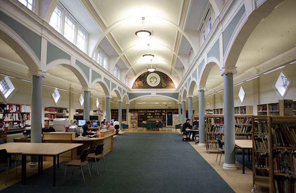 Keighley Reference Library located on the second floor of Keighley Library.